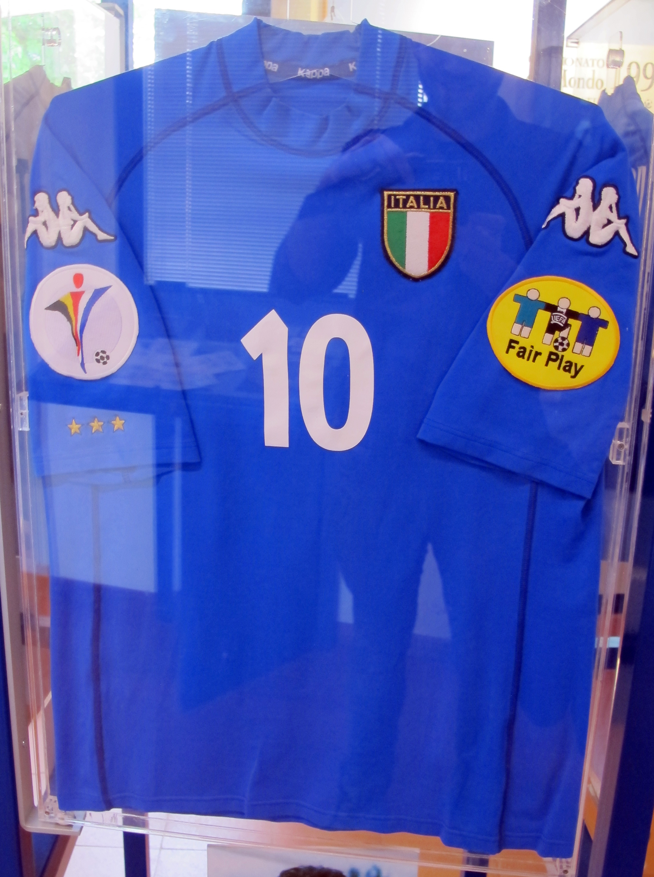 Collections of the Museo del Calcio (Florence)